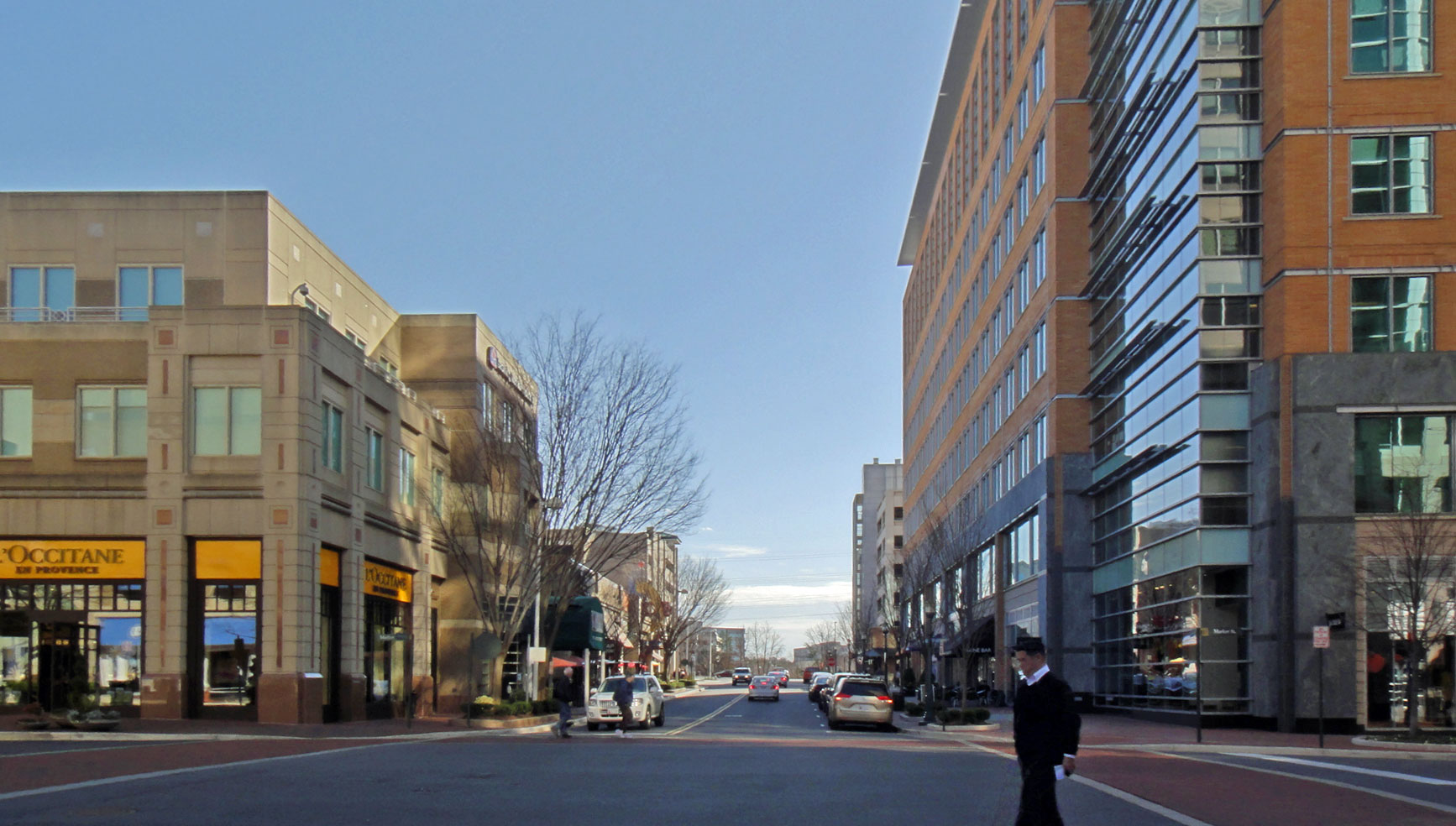 Market Street and Fountain Square